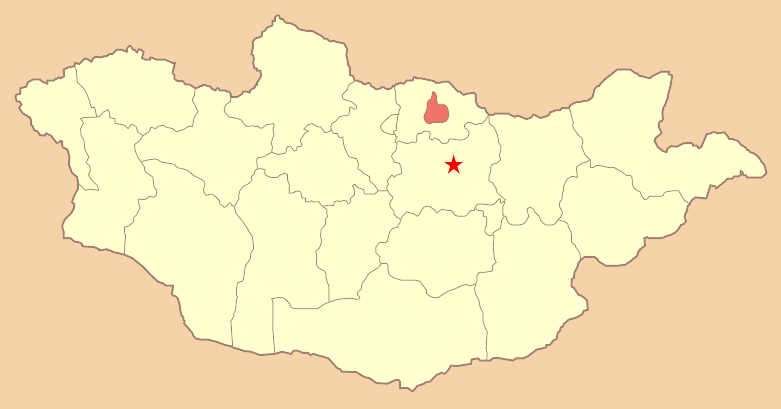 Map of Mongolia with Darkhan-Uul Aimag highlighted.